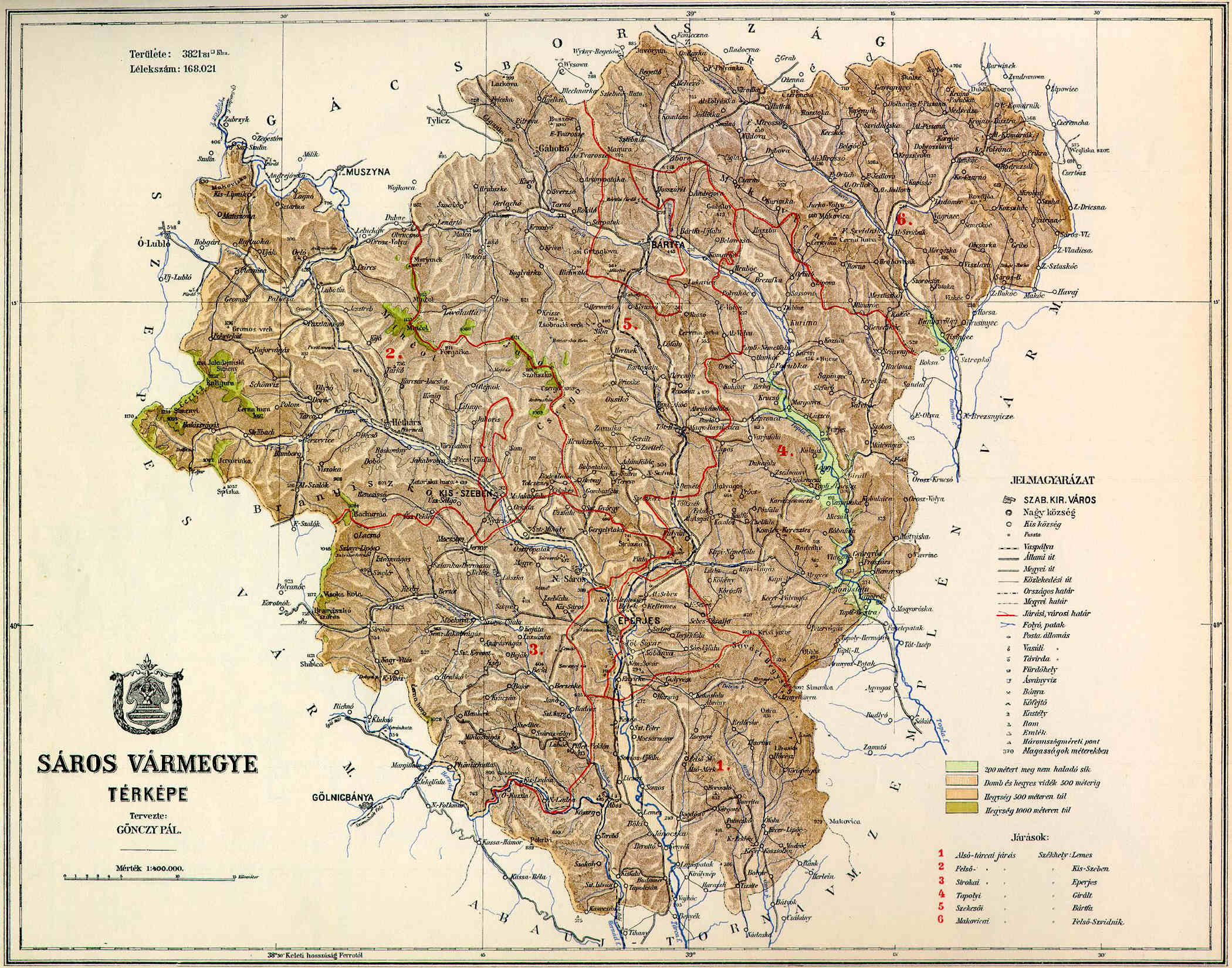 County of Sáros in the pre-Trianon Kingdom of Hungary. Komitat Sáros w Królestwie Węgier przed traktatem w Trianon.